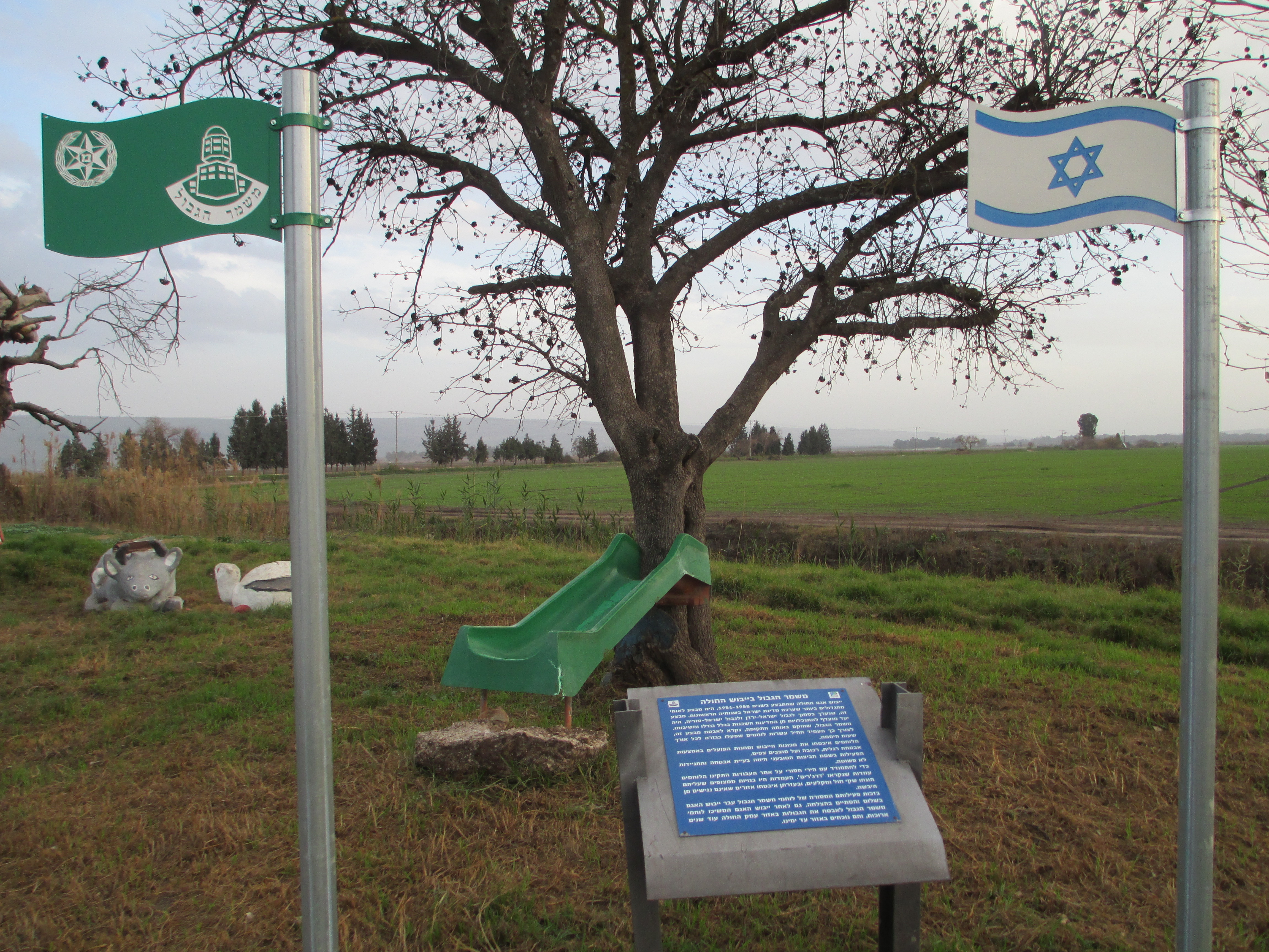 Agamon Hahula in Hula Valley